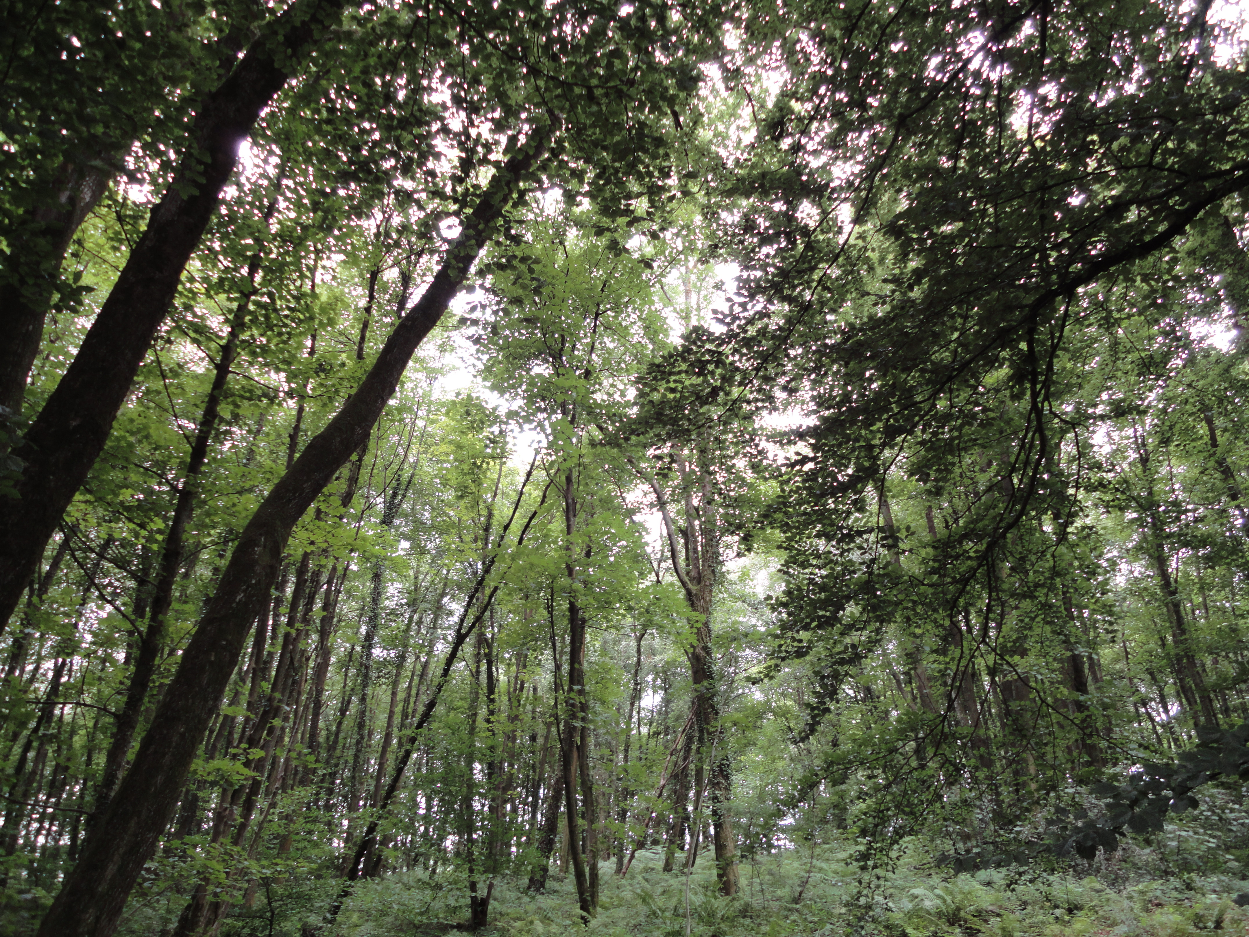 Bryngarw Country Park, Sycamore Wood